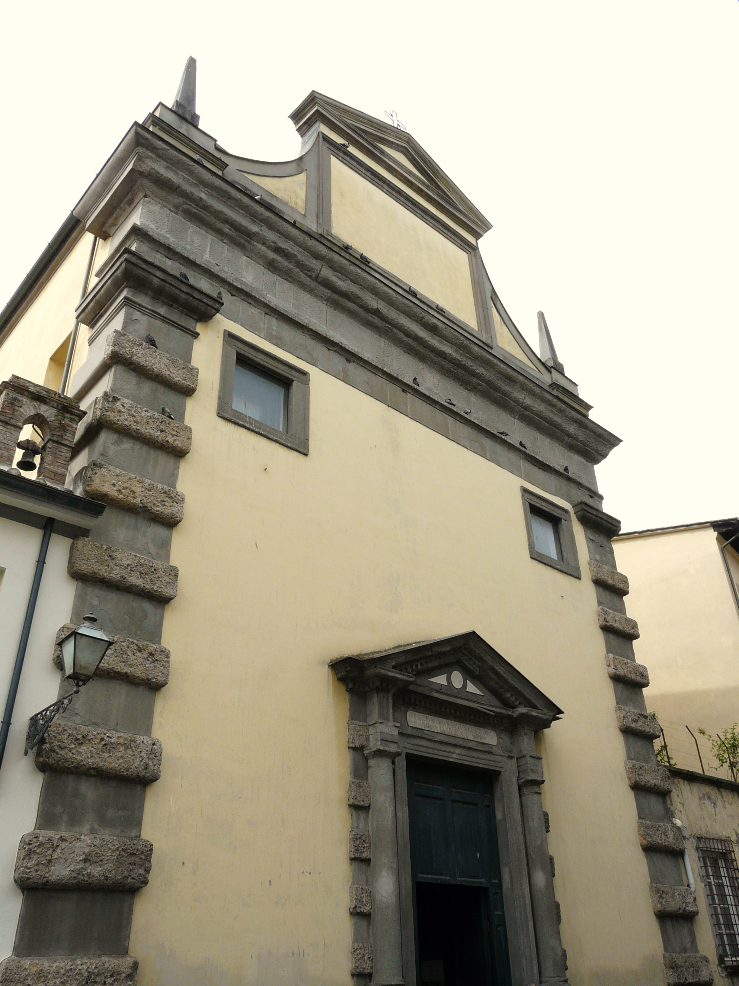 Lucca, Tuscany, Italy. Church of the Holy Trinity.